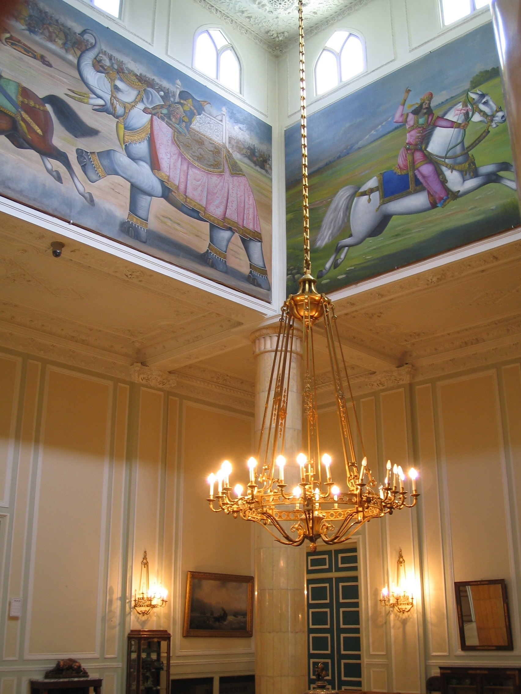 Ceiling in Kakh-e Mellat, Sad Abad Complex, Tehran, Iran.